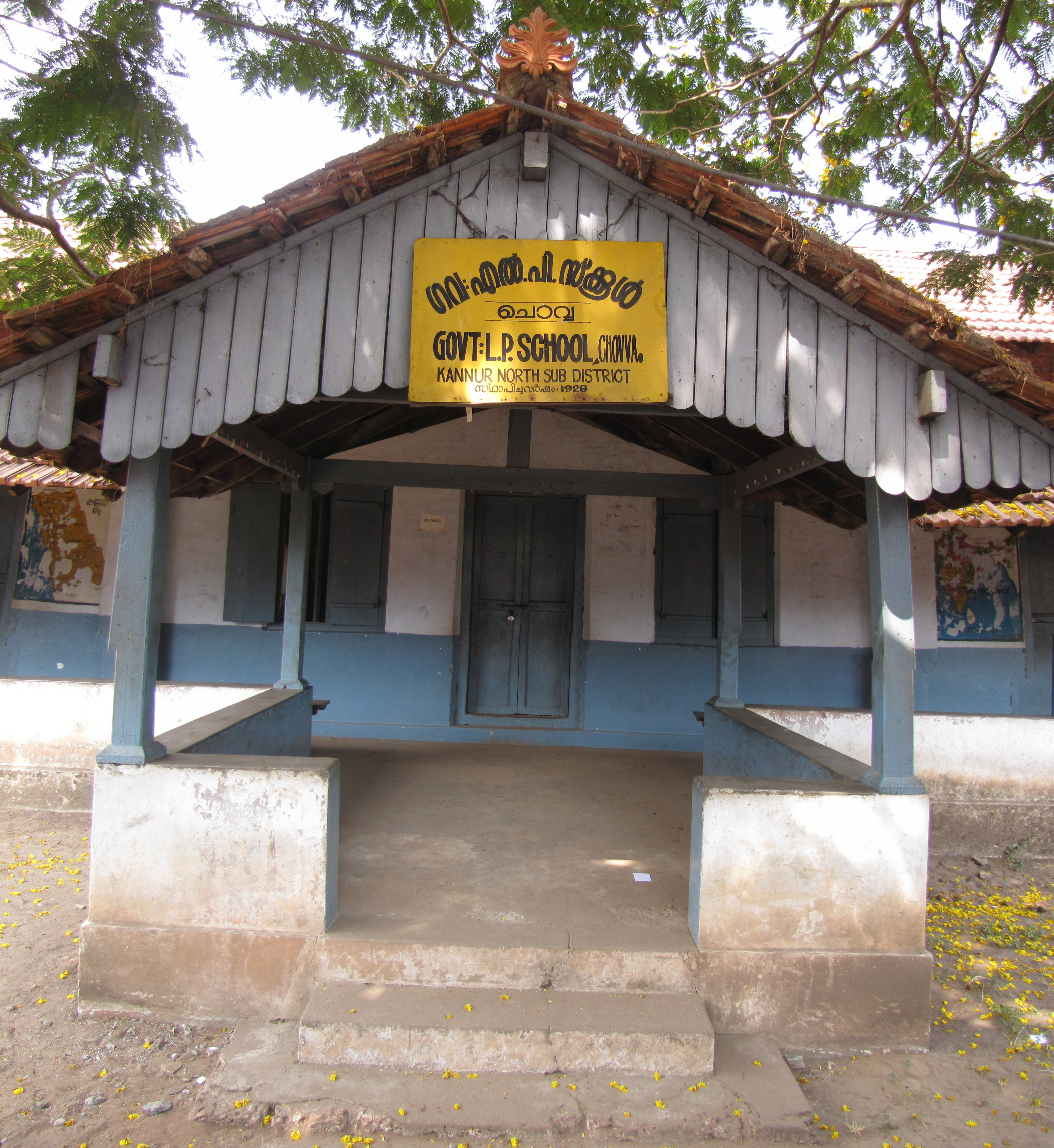 Government Lower Primary School, Thazhe Chovva in Kannur district, started in 1928. It is in Kannur North Sub district(Educational)